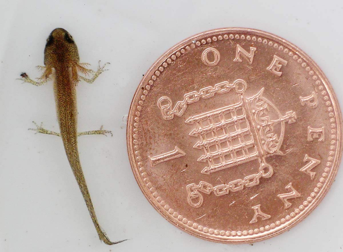 Palmate newt larva (with penny for scale) from a North Wales pond on 19 October